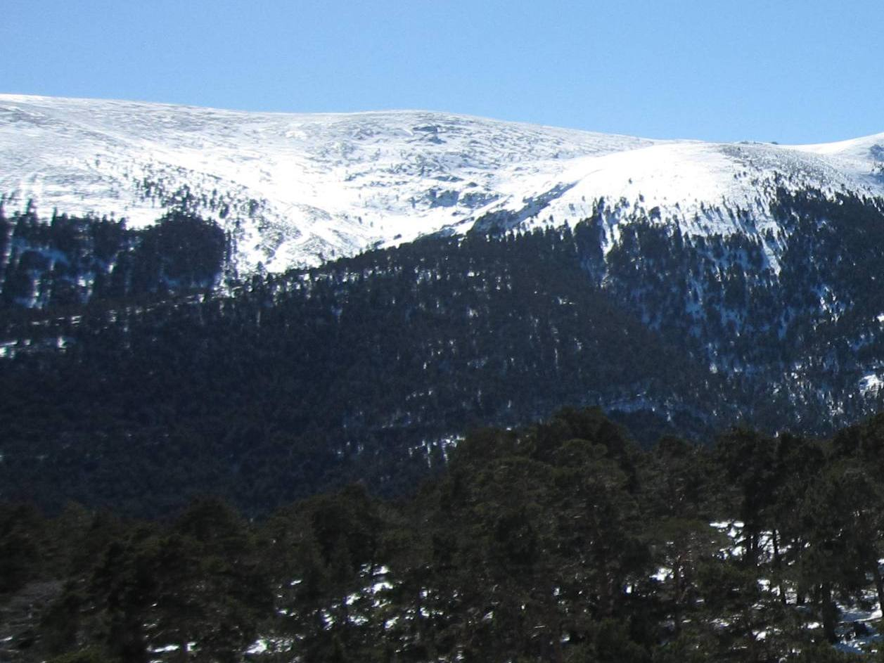 North face of Loma de Pandasco seen from Cabeza Mediana's summit (Guadarrama mountain range, central Spain).